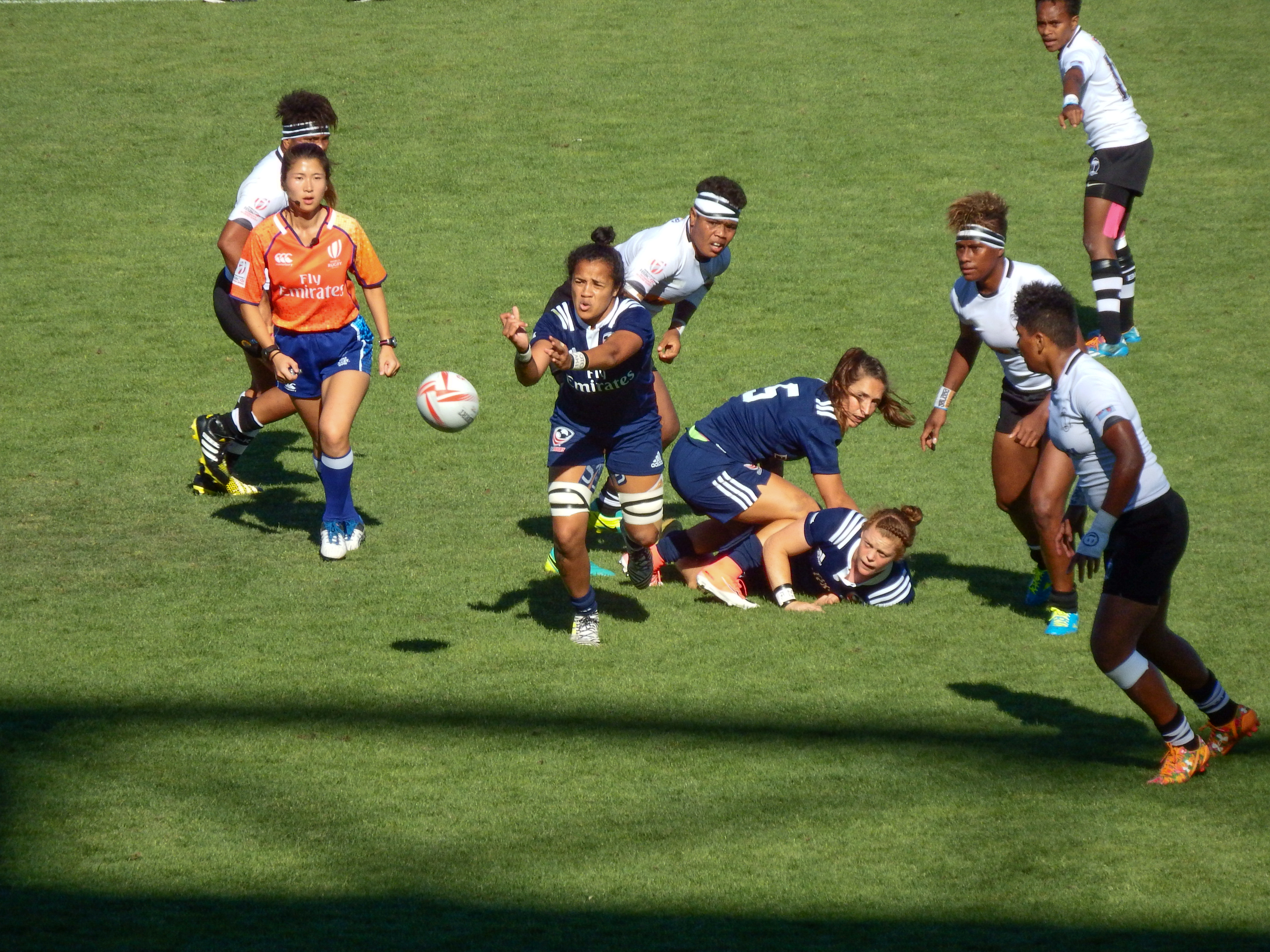 2017 France Women's Sevens — 25 June 2017, stade Gabriel-Montpied. Match between: United States women's national rugby sevens team — Fiji women's national rugby union team (sevens)